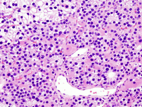 Histopatholgical image of parathyroid adenoma in a patient with primary hyperparathyroidism. Hematoxylin and eosin stain. Another view of the same lesion presented as a filename "Parathyroid_adenoma_histopathology_(1).jpg".